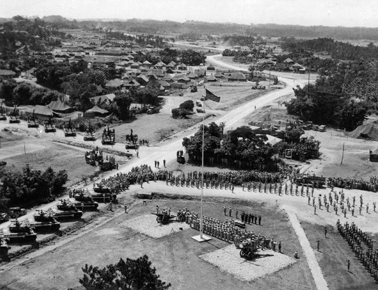 Japanese Surrender in the Ryukyu Islands, September 1945. Aerial photograph of the surrender scene, at Tenth Army Headquarters on Okinawa, 7 September 1945. The surrender table is just to right of the flagpole. Note captured Japanese artillery pieces flanking the flagpole; U.S. Army M-26 "Pershing" tanks in lower left; self-propelled guns in middle left and extensive tent "city" beyond. Removed caption read: Photo # NH 62873 Aerial view of Ryukyus surrender, Okinawa, 7 Sept. 1945